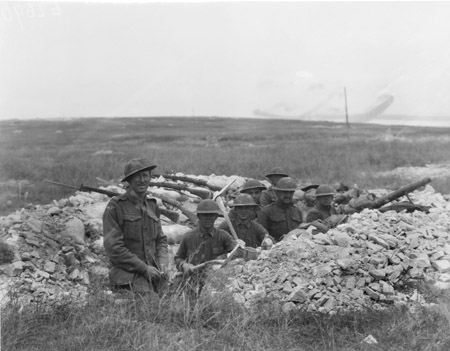 American and Australian troops dug in together during the Battle of Hamel. Hamel was fought in the early morning and by a happy arrangement on what was their National Day, United States troops attacked, at battalion strength, for the first time in the British line. Their part in the operation not only made the day memorable for them, but created a great bond between the Americans and Australians. Left to right: five unidentified; Private Jamieson, 42nd Battalion; Lance Corporal Bellamy, 42nd Battalion.